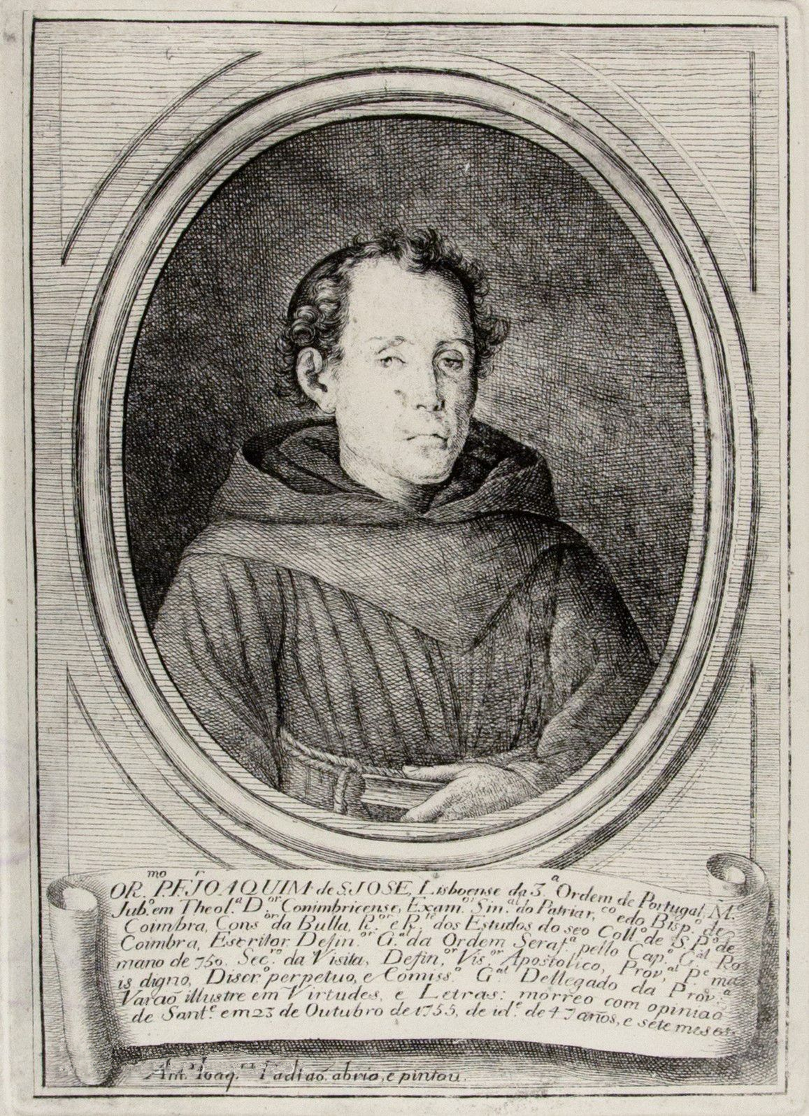 Engraved portrait of Frei Joaquim de São José, by António Joaquim Padrão.